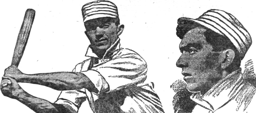 Professional baseball Frank Baker as a member of the Philadelphia Athletics. This image was featured in the November 5, 1911 edition of The Sunday Oregonian.